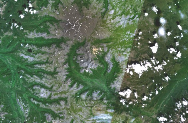 Uxichan.